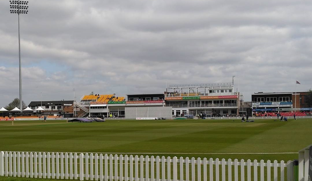 Photo taken by me at Day 2 of the tour match between Leicestershire CCC and the Sri Lankans on 14 May 2016 at the Fischer County Ground, Grace Road, Leicester. The pavilion.